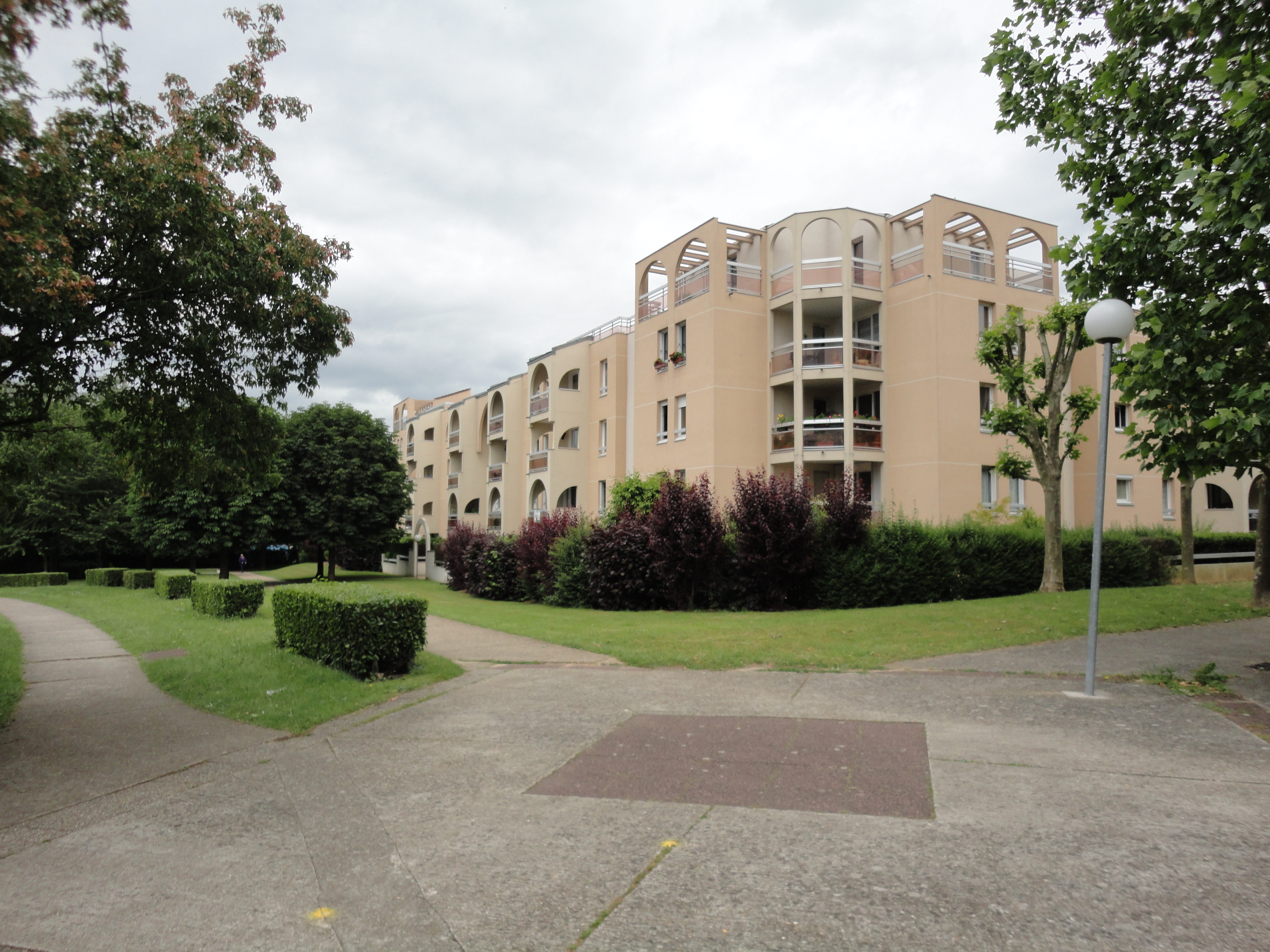 Carré Fleuri building